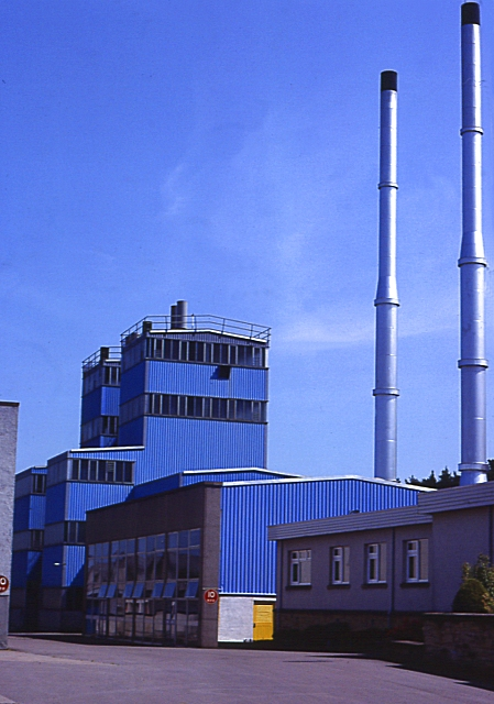 Mannochmore Distillery One of the more modern, and possibly less picturesque, distilleries, Mannochmore is situated next to the older Glenlossie Distillery.